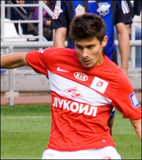 Alex Raphael Meschini (Alex), Brazilian footballer